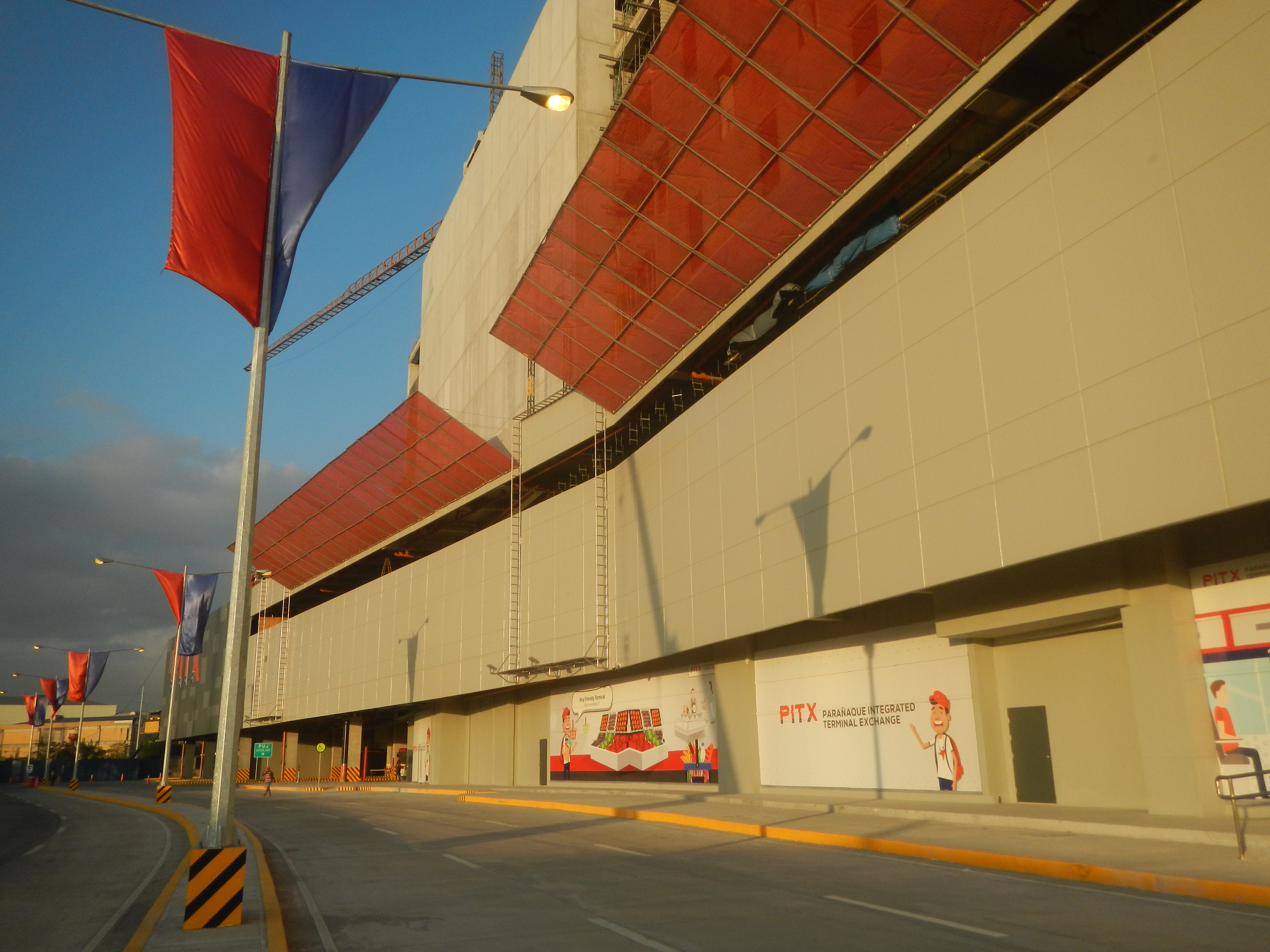 Parañaque Integrated Terminal Exchange (PITX) (Parañaque) 14°30'36"N 120°59'28"E PITX Parañaque Integrated Terminal Exchange (Note: Judge Florentino Floro, the owner, to repeat, Donor Florentino Floro of all these photos hereby donate gratuitously, freely and unconditionally all these photos to and for Wikimedia Commons, exclusively, for public use of the public domain, and again without any condition whatsoever).